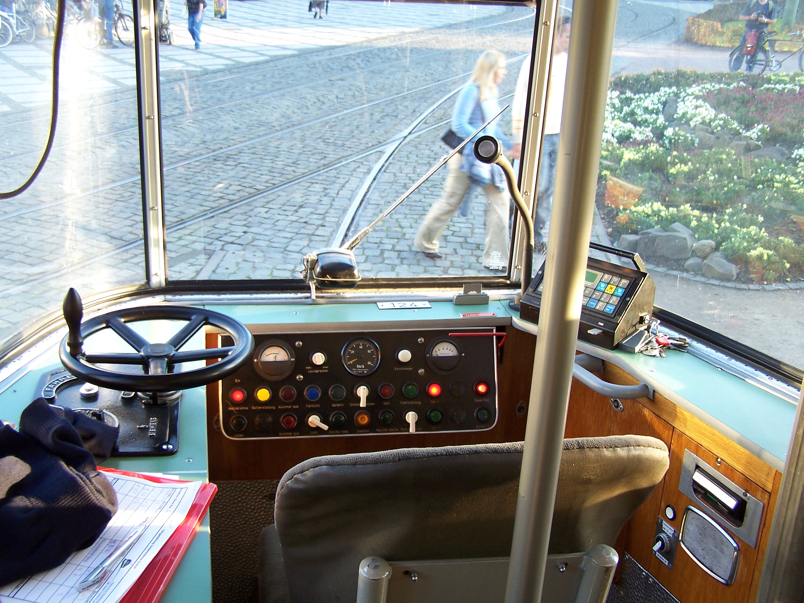 Tramway at Frankfurt am Main: Driver's cab of VGF type L railcar 124 (ex224) in Frankfurt am Main